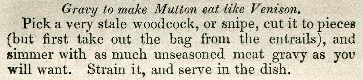 Recipe "Gravy to make Mutton eat like Venison" of Mrs Rundell's A New System of Domestic Cookery